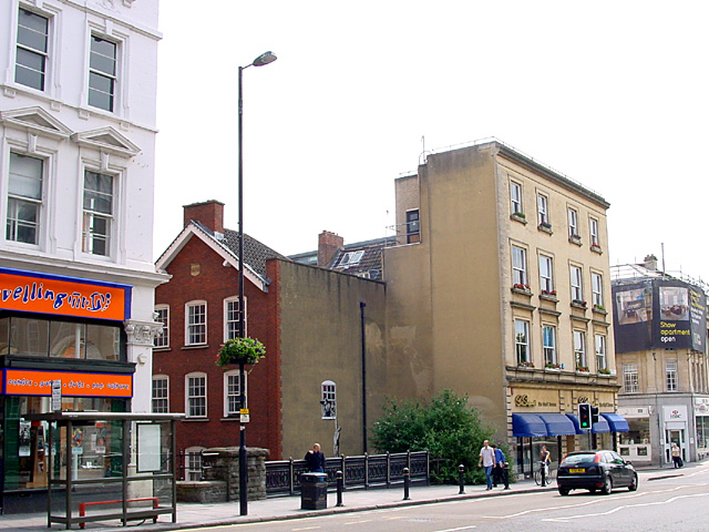 Bridge over Frogmore Street. At this point the road appears flat at the bottom of Park Street, however it passes over Frogmore Street, the bridge railings can be seen. The red fronted building is on Frogmore Street, and on the side of the building is a Banksy image of a naked man hanging out of a bedroom window. Bristol Council say the public should decide if it stays or goes.